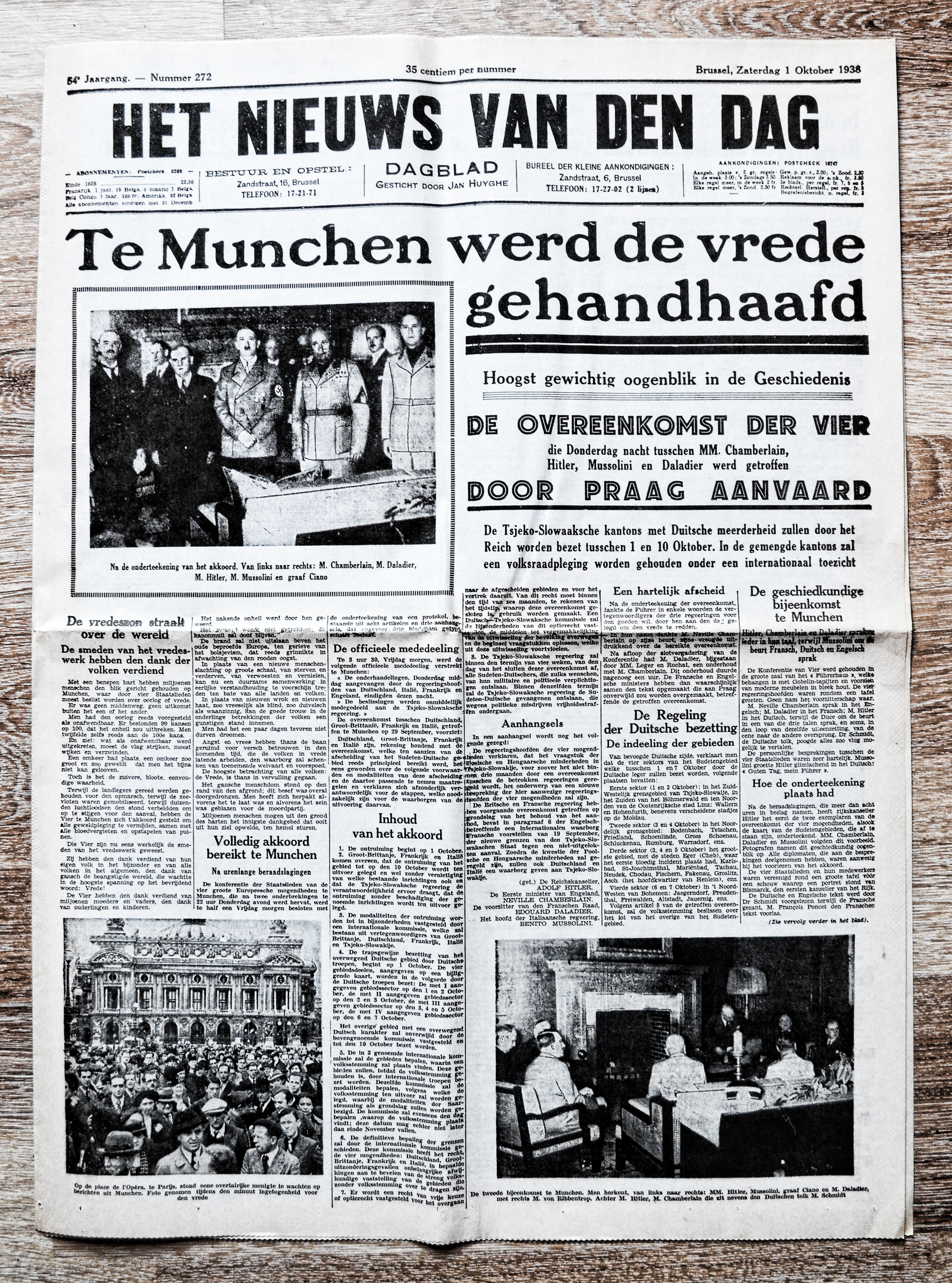 Front page Flemish newspaper "Het Nieuws Van Den Dag" October 1 1938. With headline: "Peace was maintained in Munich".